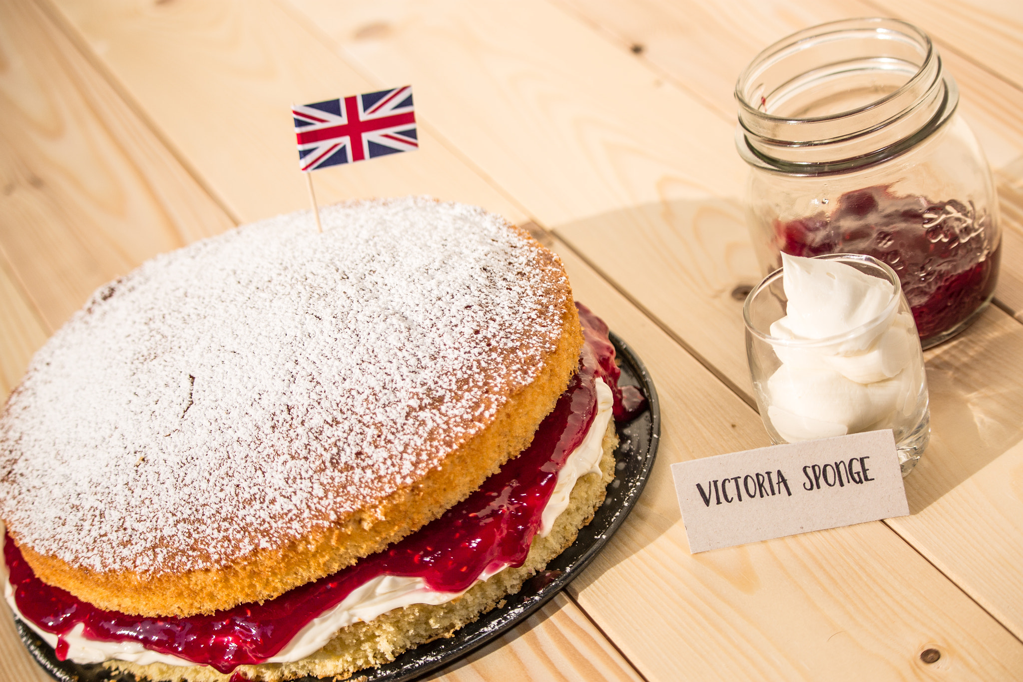 500px provided description: Victoria Sponge Cake, with its raspberry jam and cream cheese [#england ,#food ,#breakfast ,#plate ,#spoon ,#fork ,#bowl ,#dinner ,#dessert ,#napkin ,#tablecloth ,#crockery ,#slice ,#baked ,#indulgence ,#sweet food ,#victoria sponge]